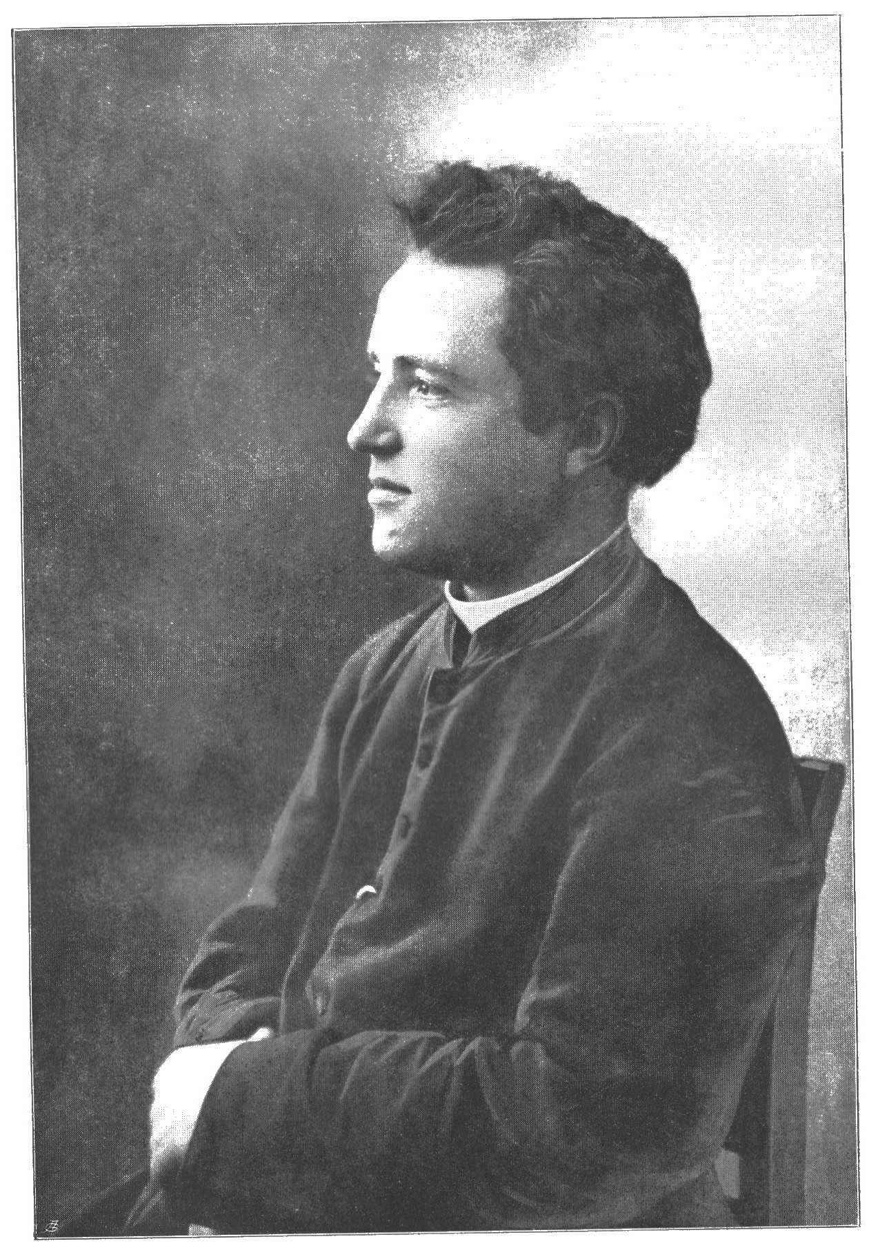 Don Lorenzo Perosi (1872-1956), the Composer and maestro of Sistina